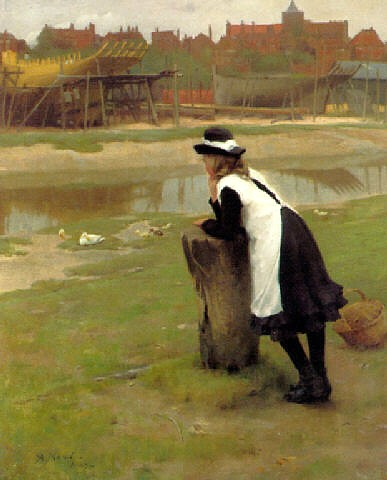 The Shipwright's Daughter